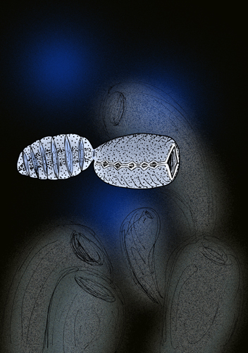 Reconstruction of the Early Cambrian deuterostome vetulicolian Ooedigera peeli, of what is now Greenland